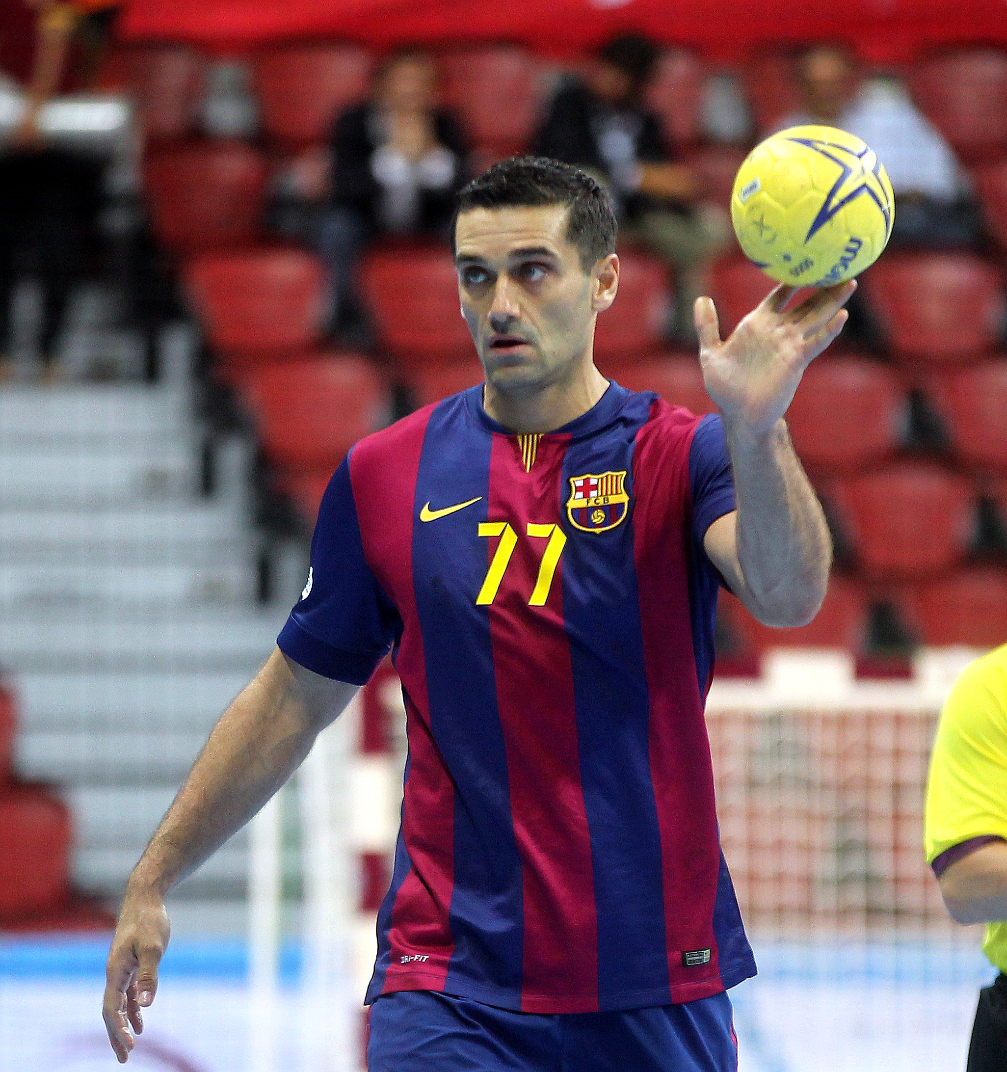 FC Barcelona's Kiril Lazarov during their game against Al Sadd in the IHF Super globe 2014.